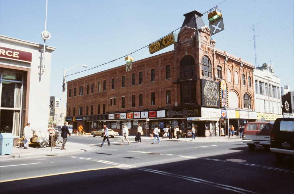 The William Reynolds Block at Yonge and Gould Streets in Toronto, Ontario, Canada.